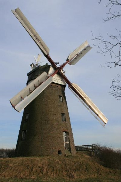 Cultural heritage monument No. 30 in Gangelt